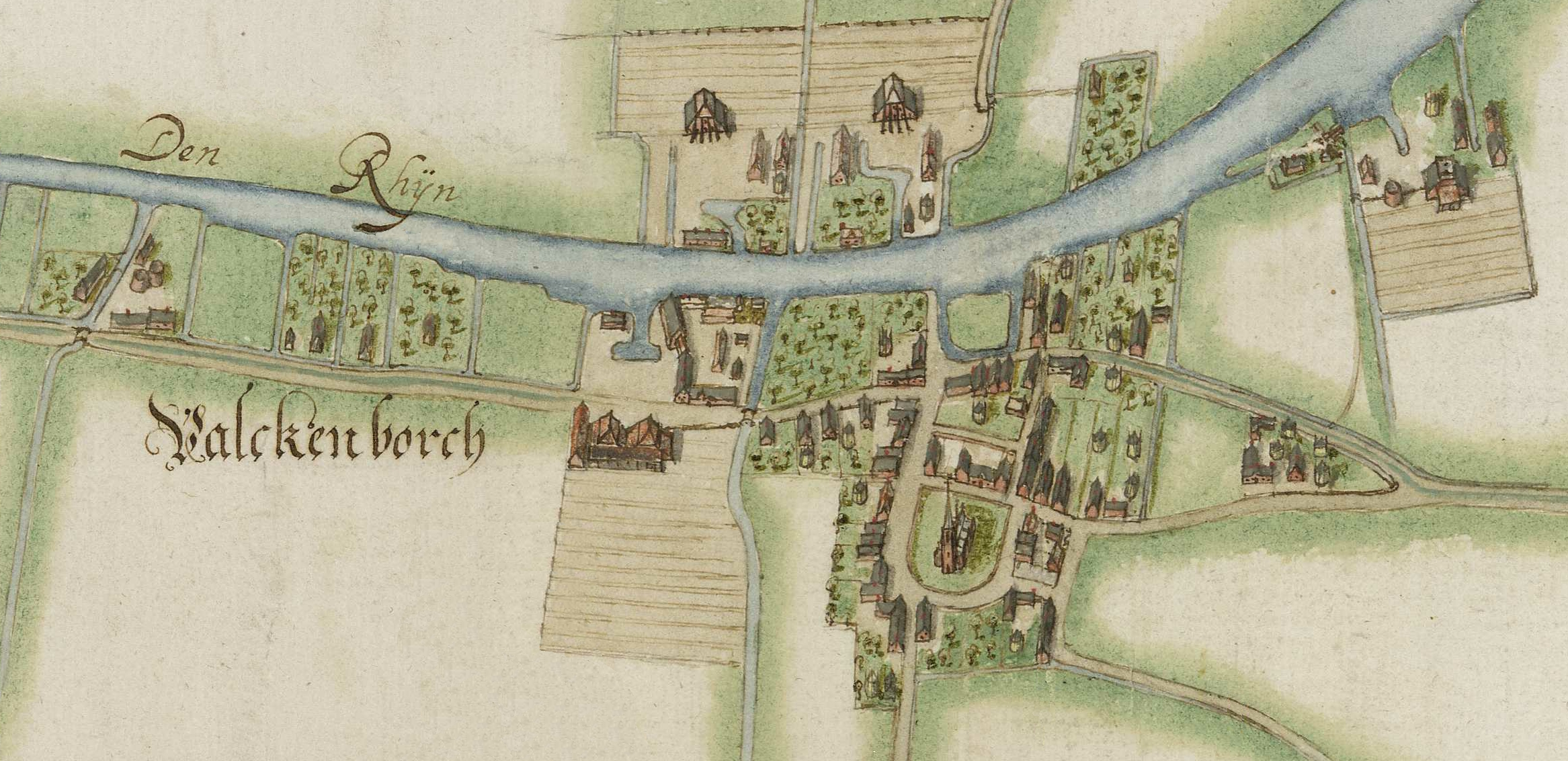 Detail from the map of P. van Bilderbeeck, 1627